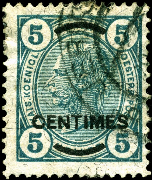 Austrian post offices in Crete 5-centime stamp of 1903